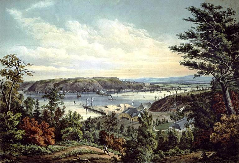 View of Quebec, Canada from the Railway Station opposite Quebec, the Citylabel QS:Len,"View of Quebec, Canada from the Railway Station opposite Quebec, the City"label QS:Lfr,"Vue de la ville de Québec, au Canada, depuis la gare ferroviaire en face de la ville, 1862"